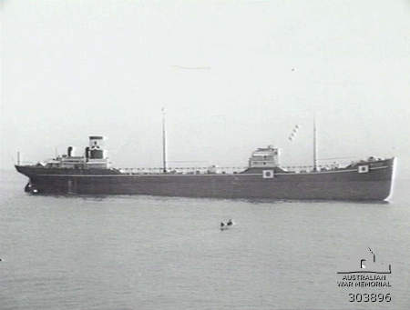 MV San Ramon Maru : Japanese tanker launched in 1935. 7309grt.